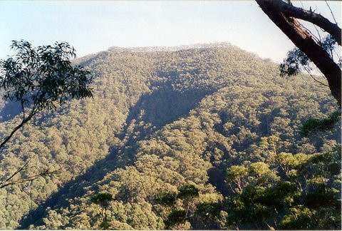 Mount Imlay, NSW, Australia, photographed from the walking trail